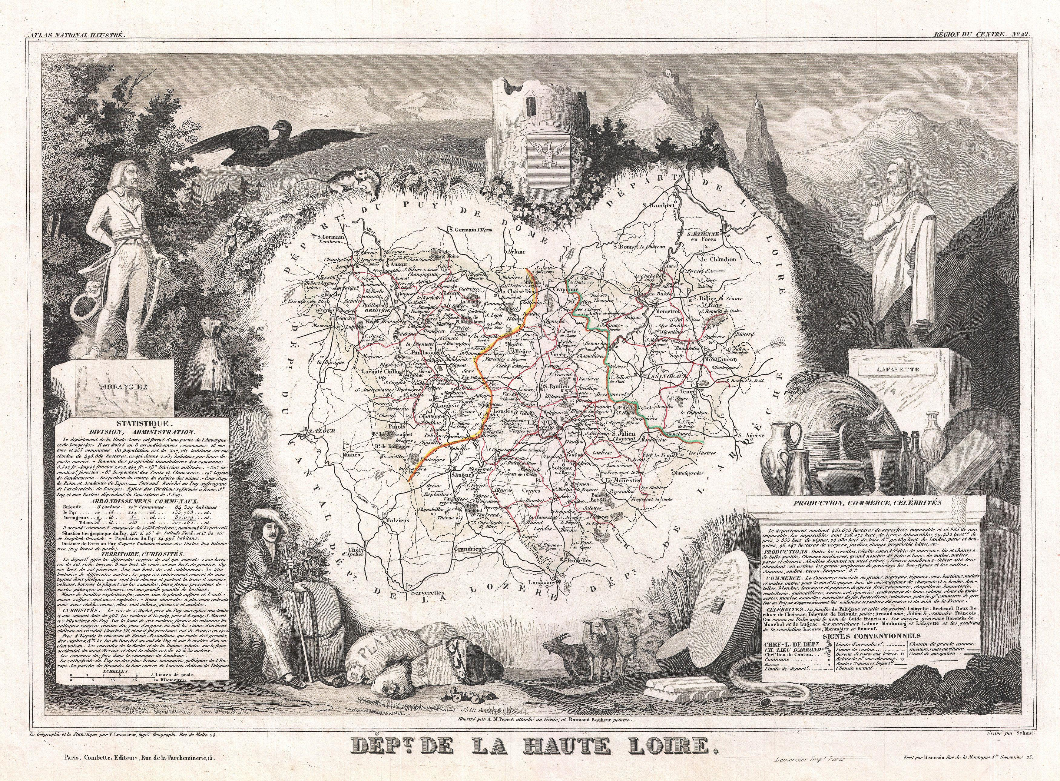 This is a fascinating 1852 map of the French department of Haute Loire, France. This area of France is part of the Loire Valley wine growing region. It is also known for its production of a number of cheeses, including Bleu d'Auvergne, Cantal, Fourme d'Ambert and Saint-Nectaire. The map proper is surrounded by elaborate decorative engravings designed to illustrate both the natural beauty and trade richness of the land. There is a short textual history of the regions depicted on both the left and right sides of the map. Published by V. Levasseur in the 1852 edition of his Atlas National de la France Illustree.